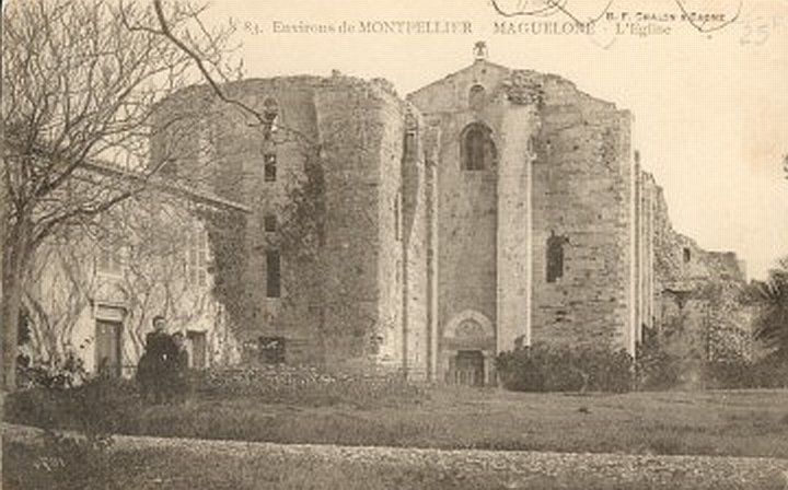 This is a postal card of the cathedral Saint-Pierre von Maguelone oder französisch Cathédrale Saint-Pierre de Maguelonne (ancienne). As a parc was planted around the cathedral after 1875, this picture must be around 1900 or earlier.